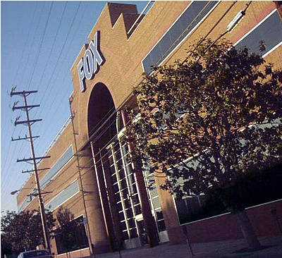 Fox Sports Net headquarters on Sepulveda Boulevard just south of Westwood.